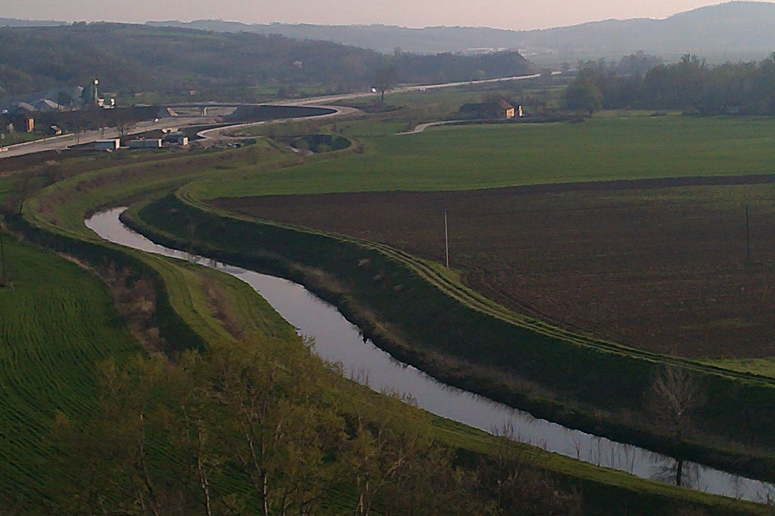 Pogled na reku Lepenicu sa Jerininog brda kod Gradca